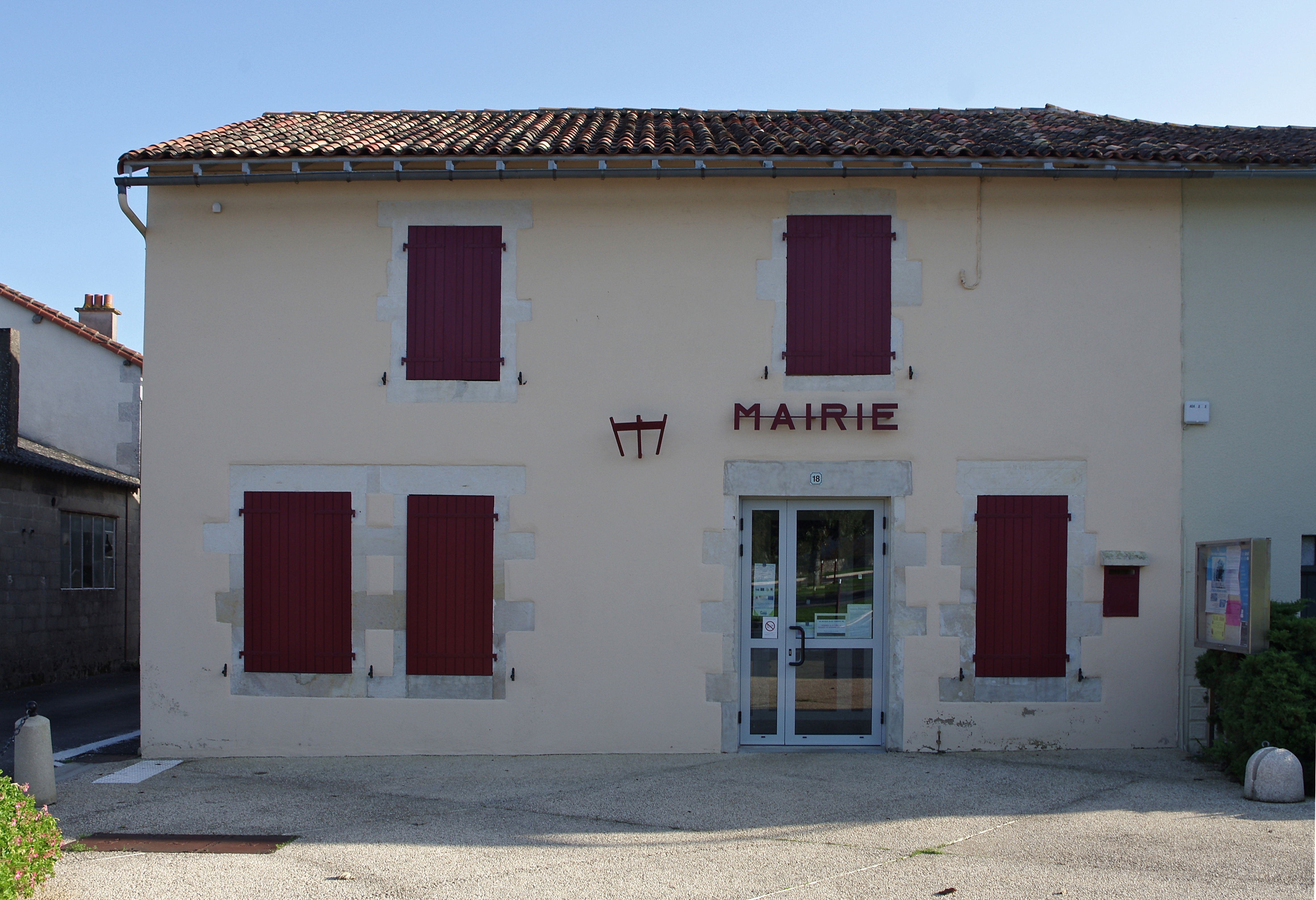 Town hall of Blanzay, Vienne, France.